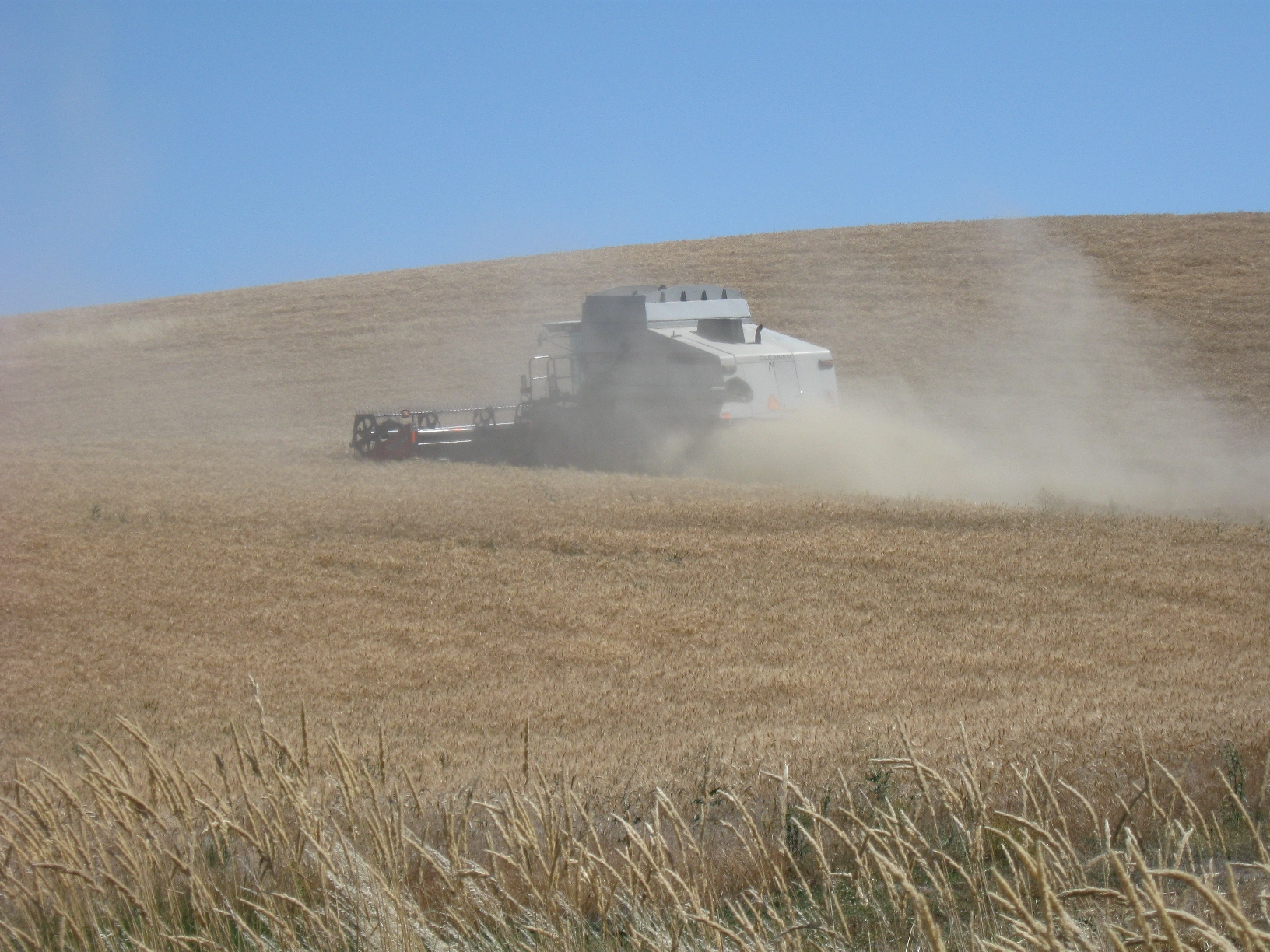 Gleaner combine at work in the Palouse, USA